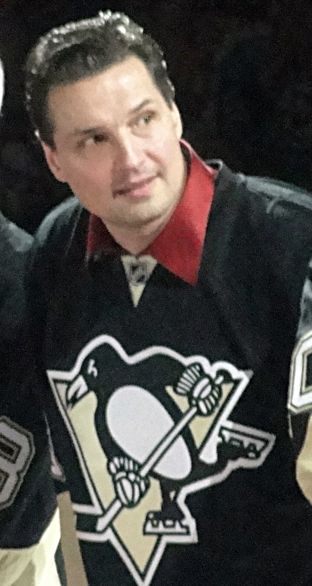 Ed Olczyk, former player, head coach and color commentator for the Pittsburgh Penguins, returned to Pittsburgh to participate in the pregame ceremony honoring the final regular season game to be played at Civic Arena (Mellon Arena). April 8, 2010.